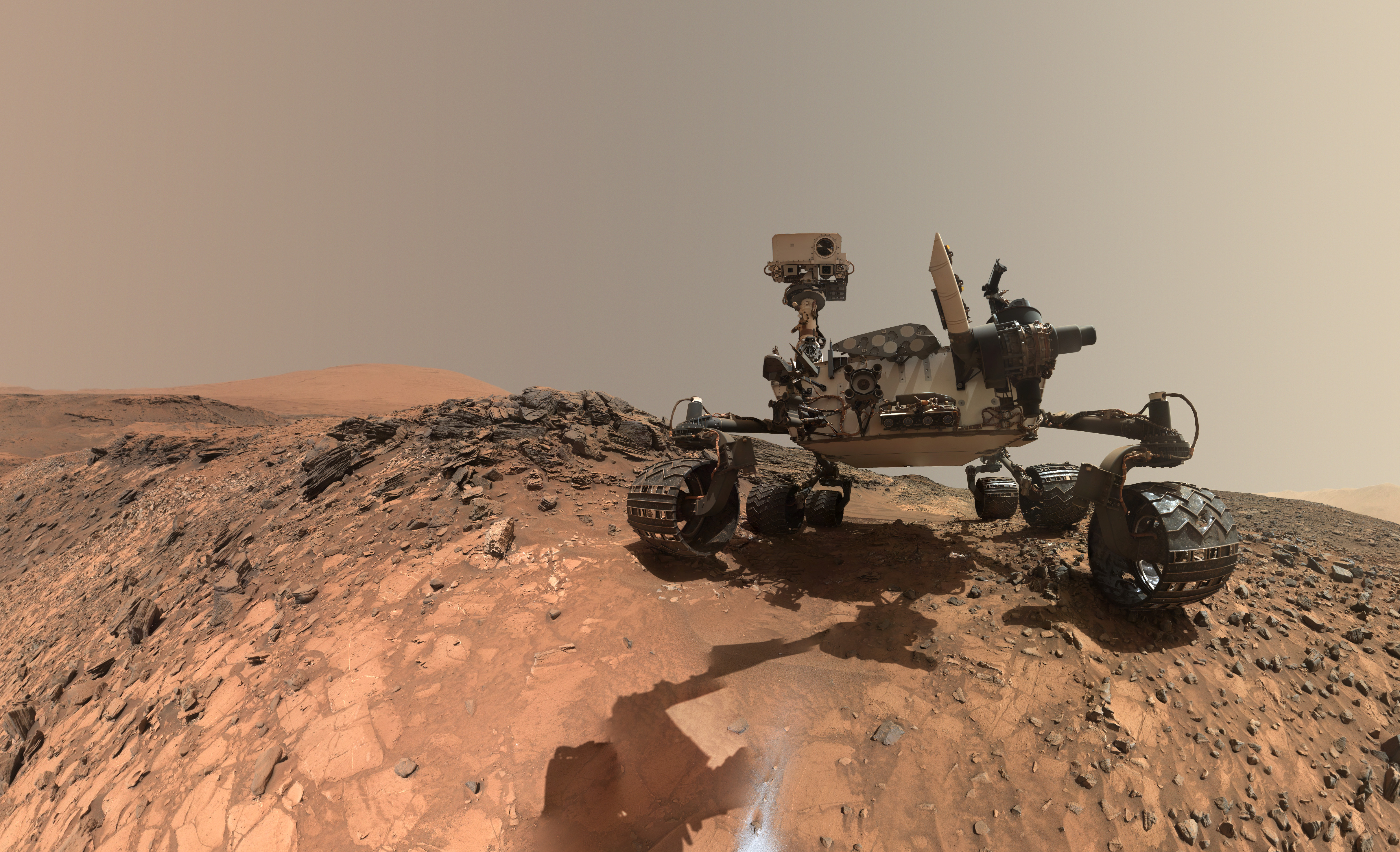 This low-angle self-portrait of NASA's Curiosity Mars rover shows the vehicle at the site from which it reached down to drill into a rock target called "Buckskin" on lower Mount Sharp. The selfie combines several component images taken by Curiosity's Mars Hand Lens Imager (MAHLI) on Aug. 5, 2015, during the 1,065th Martian day, or sol, of the rover's work on Mars. For scale, the rover's wheels are 20 inches (50 centimeters) in diameter and about 16 inches (40 centimeters) wide. This view is a portion of a larger panorama available at A close look reveals a small rock stuck onto Curiosity's left middle wheel (on the right in this head-on view). The rock had been seen previously during periodic monitoring of wheel condition about three weeks earlier, in the MAHLI raw image at MAHLI is mounted at the end of the rover's robotic arm. For this self-portrait, the rover team positioned the camera lower in relation to the rover body than for any previous full self-portrait of Curiosity. This yielded a view that includes the rover's "belly," as in a partial self-portrait ( taken about five weeks after Curiosity's August 2012 landing inside Mars' Gale Crater. The selfie at Buckskin does not include the rover's robotic arm beyond a portion of the upper arm held nearly vertical from the shoulder joint. With the wrist motions and turret rotations used in pointing the camera for the component images, the arm was positioned out of the shot in the frames or portions of frames used in this mosaic. This process was used previously in acquiring and assembling Curiosity self-portraits taken at sample-collection sites "Rocknest" ( "John Klein" ( "Windjana" ( and "Mojave" ( MAHLI was built by Malin Space Science Systems, San Diego. NASA's Jet Propulsion Laboratory, a division of the California Institute of Technology in Pasadena, manages the Mars Science Laboratory Project for the NASA Science Mission Directorate, Washington. JPL designed and built the project's Curiosity rover.